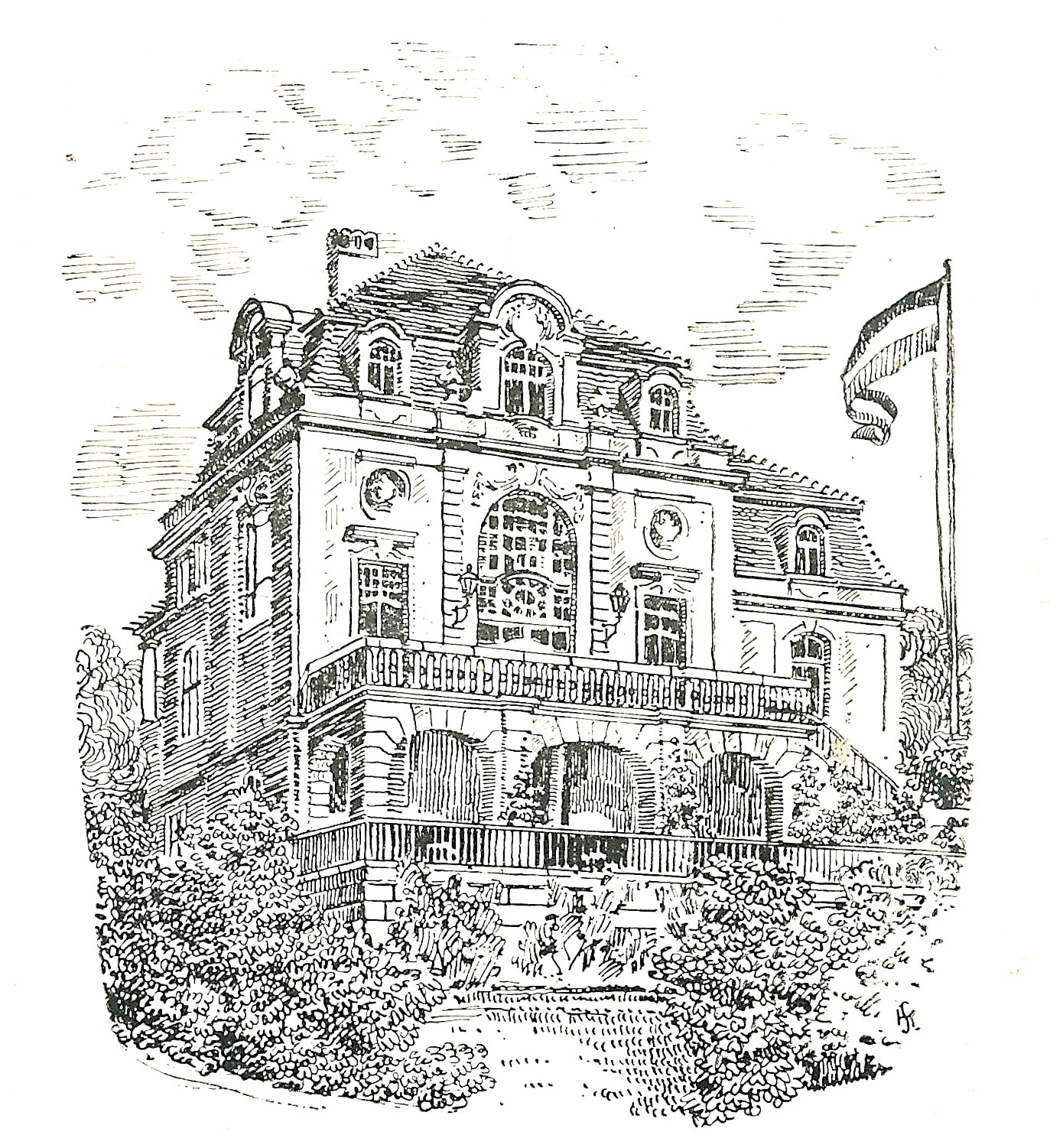 Former house of student fraternity Corps Suevia Tübingen, Gartenstrasse, Tübingen / Germany